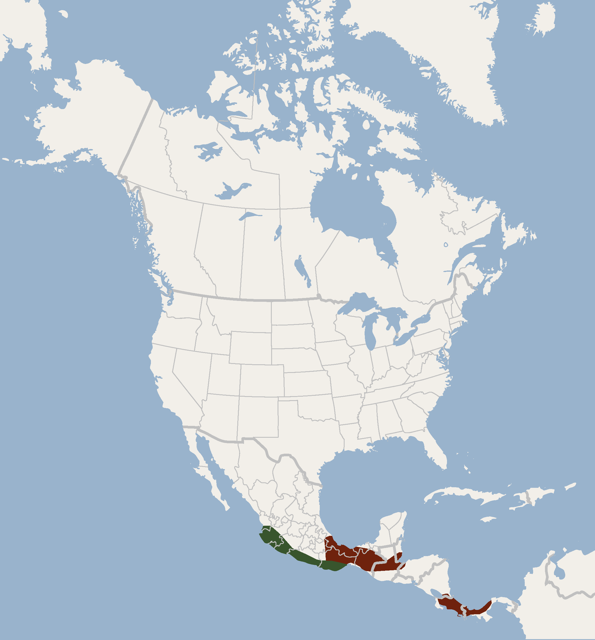 According to Knox Jones & Homan, 1974. Subspecies range: H.u.underwoodi in brown, H.u.minor in green. H.u.underwoodi H.u.minor